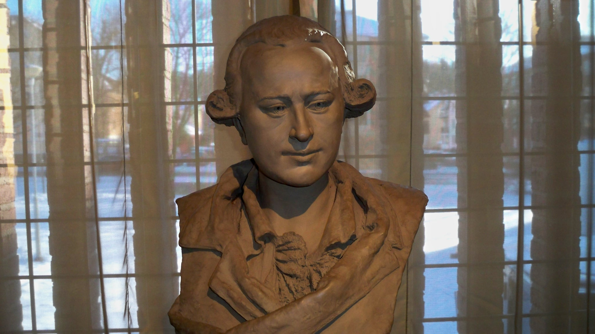 Bust of the 18th century Swedish-French miniature painter Peter Adolf Hall (1739-1793) made by the Italian portrait sculptor Giuseppe Alessandro Moretti (1870-1953). The bust is situated in The Art Museum of Borås, Sweden.